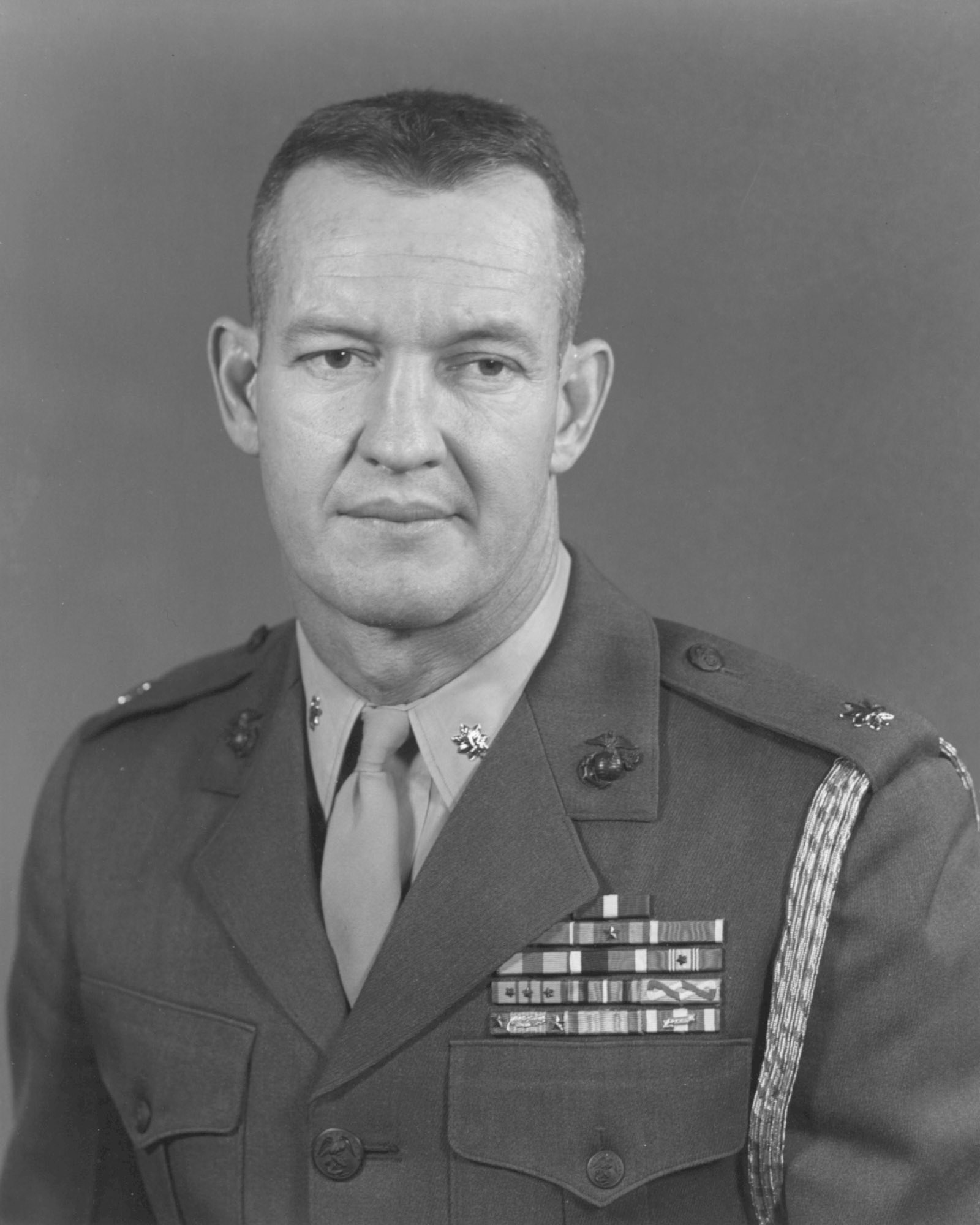 Portrait photo of Lieutenant Colonel William G. Leftwich, Jr., United States Marine Corps.